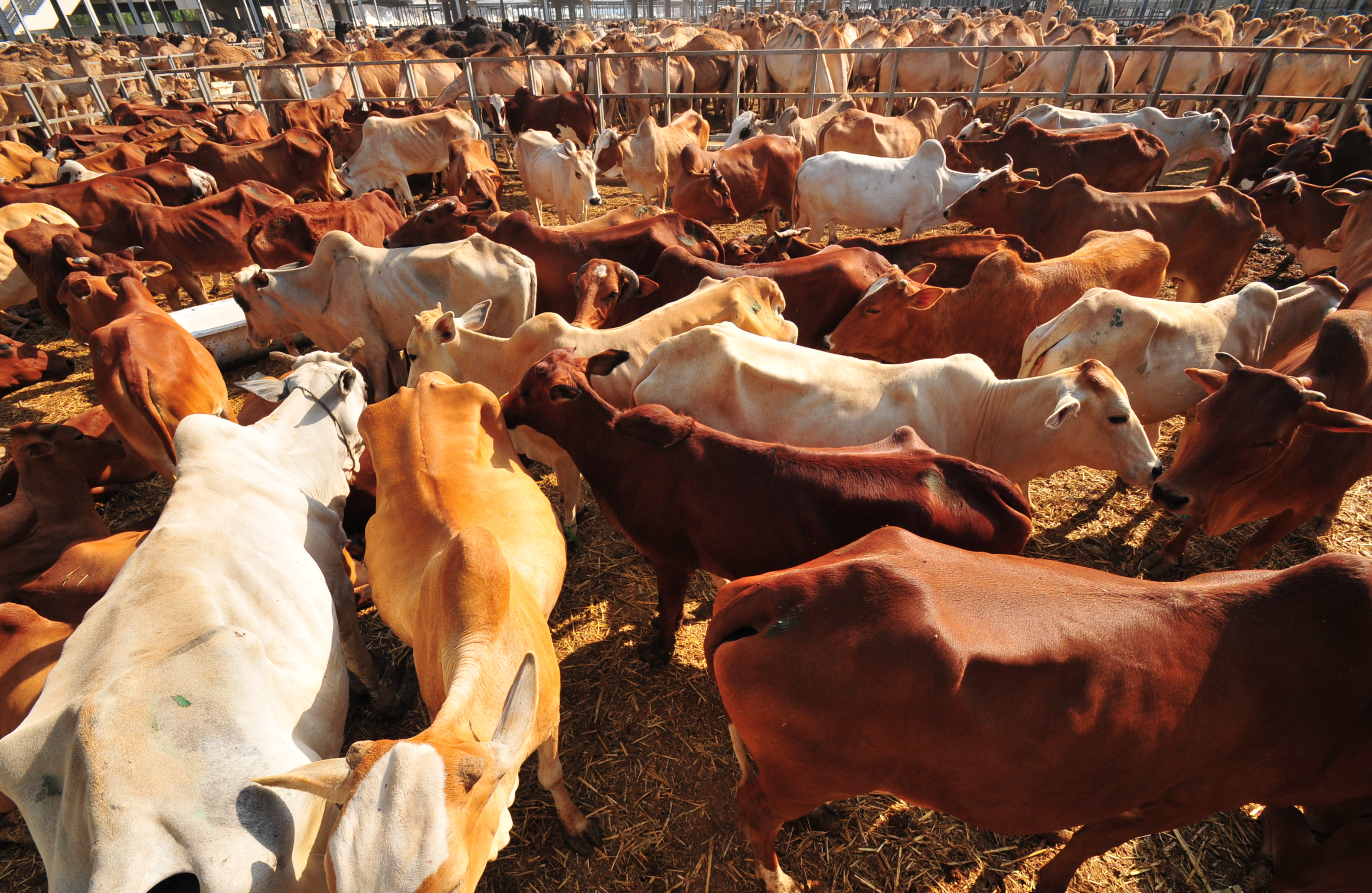 At the last minute, Muslims believe God - seeing Abraham’s devotion to him - swapped Ismail with a sheep, hence the slaughtering of animals as part of Hajj. Photo by Fadi El Binni